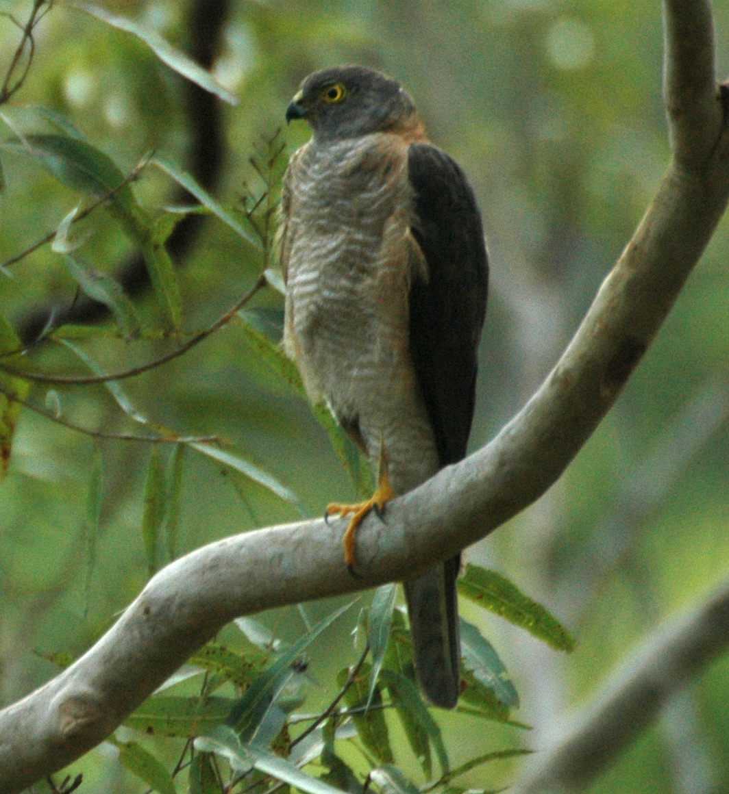 Collared Sparrowhawk (Accipiter cirrocephalus) Kobble Creek, SE Queensland, Australia